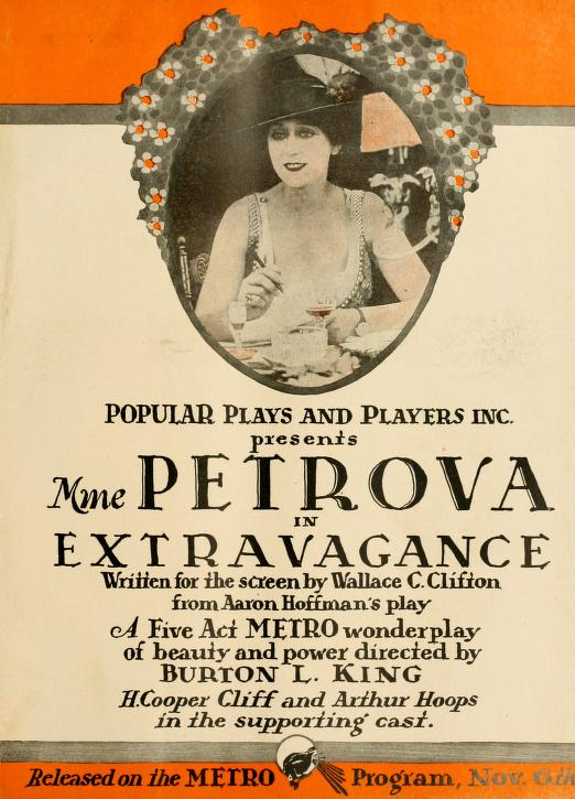 Advertisement in Moving Picture World